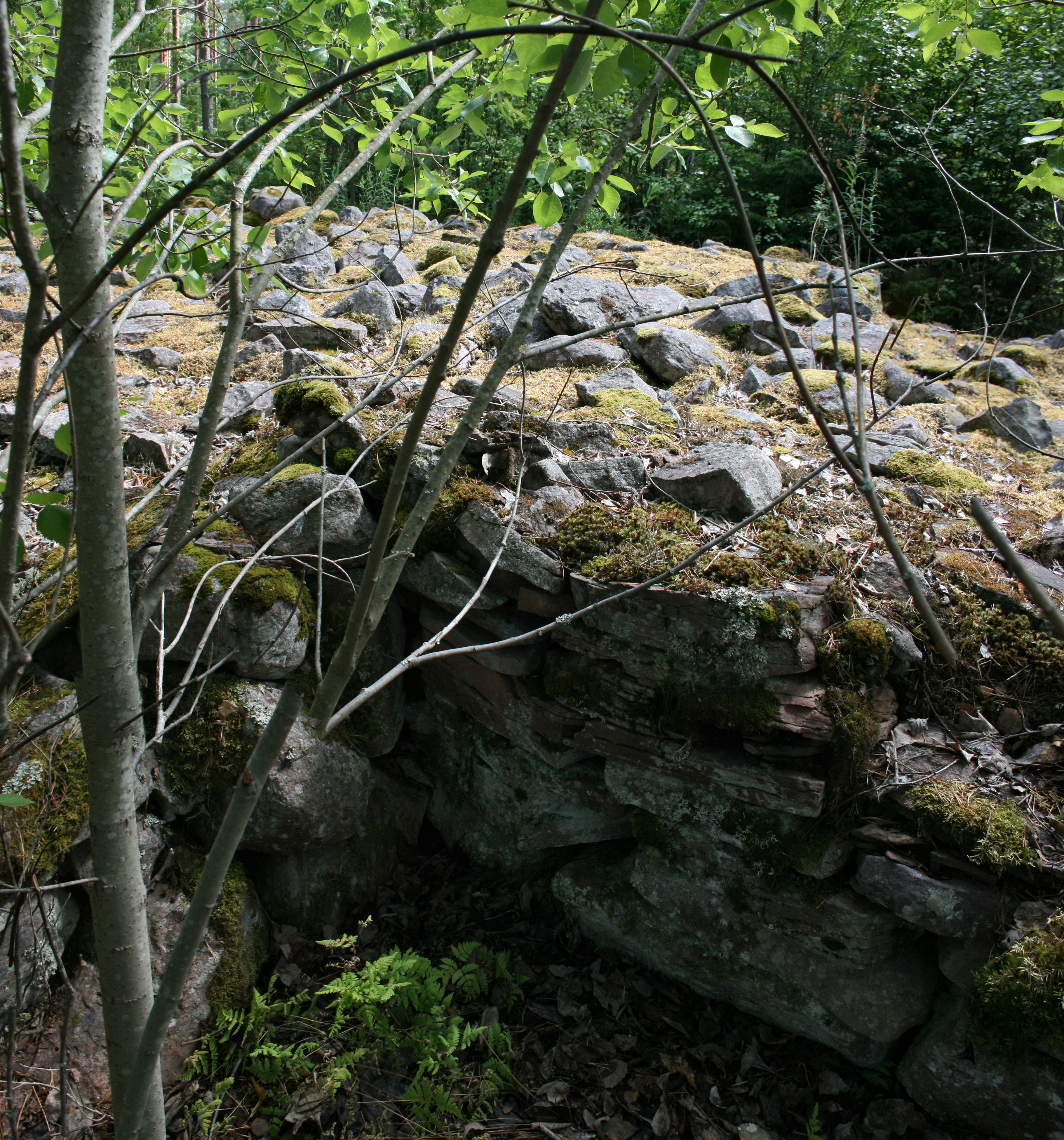 Cairn from Nakkila Finland, age: middle bronze age, Montelius period II-III, ca. 1500-1400 BCE